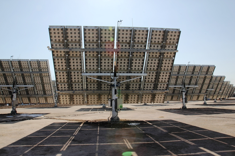 200kW dual axis tracker with CPV modules in Qingdao, China